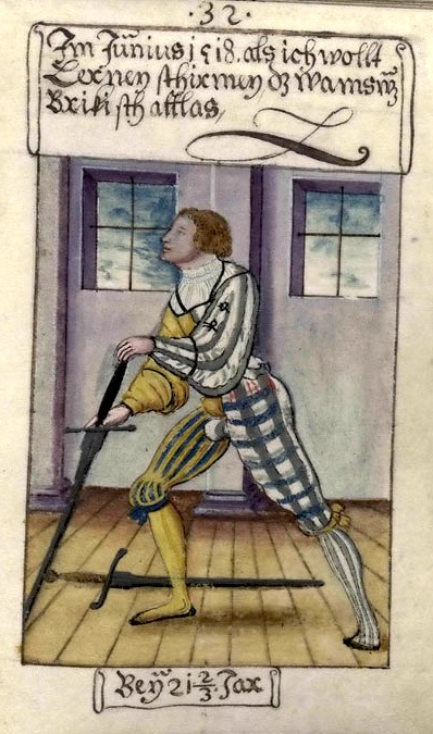 Matthäus Schwarz at the age of 19